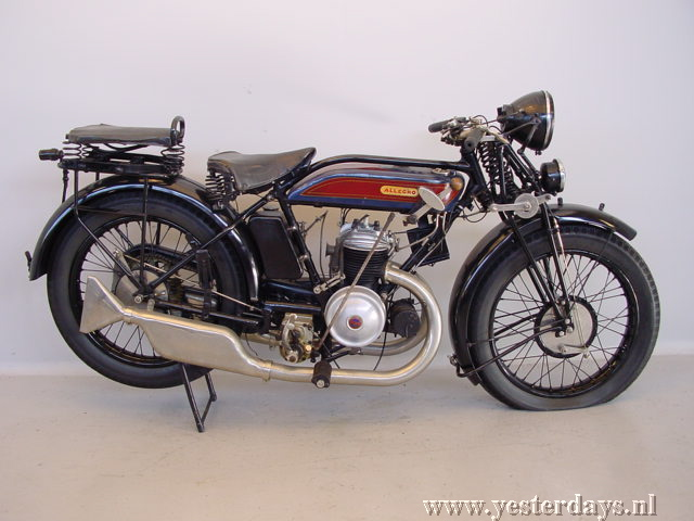 This image comes from Yesterdays Antique Motorcycles or from the Classic Motorcycle Archive. From 2007-april 2020, this image was licensed under both GFDL and CC-BY-SA-2.5. The current license is CC-BY-SA-4.0.